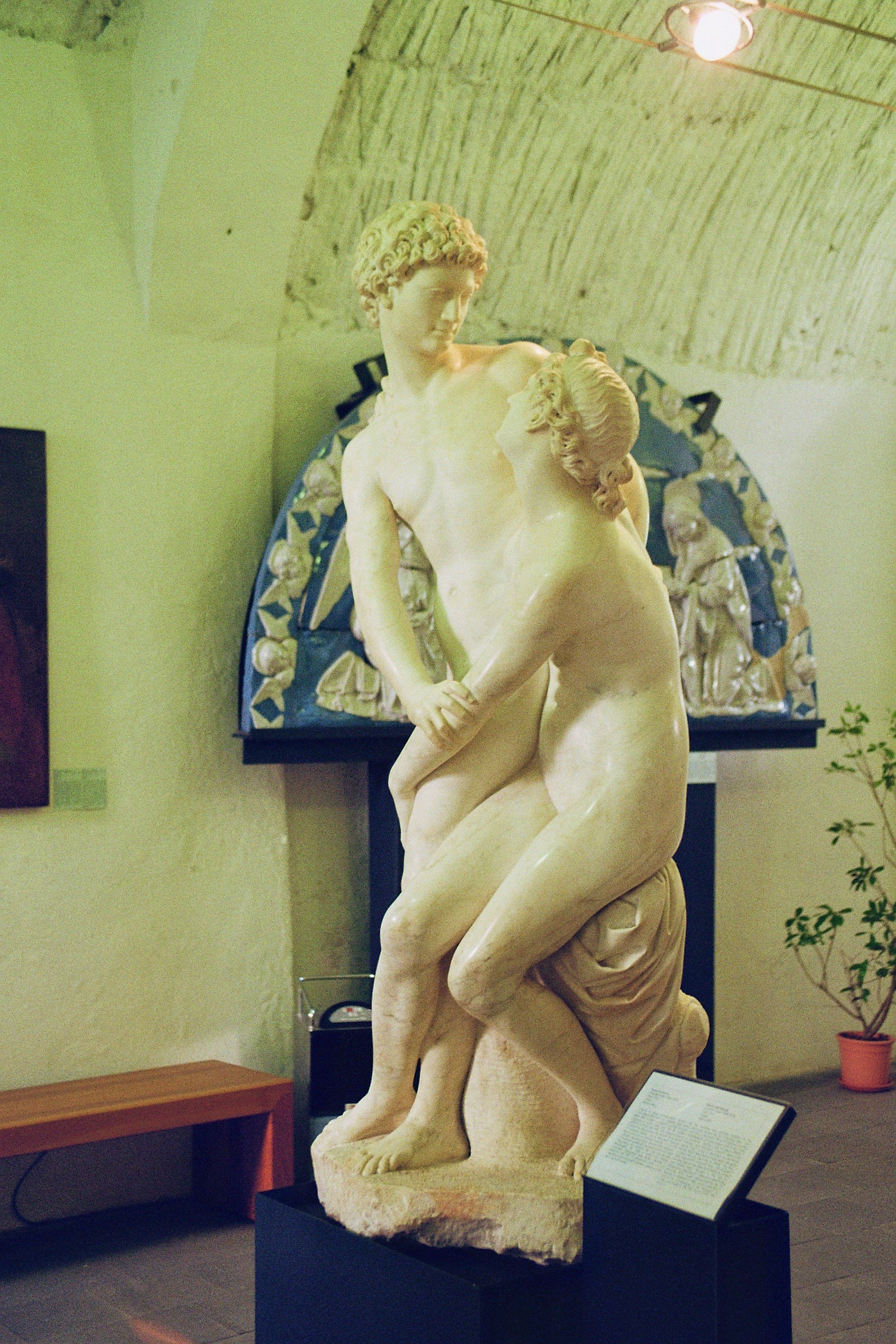 Exhibits in the Museo Civico in Bracciano, Italy. Statue in the centre of the image by local sculptor Cristoforo Stati (1556-1619) (see also: Venus and Adonis